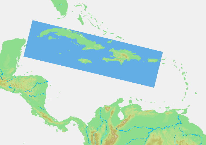 Caribbean - Greater Antilles.PNG